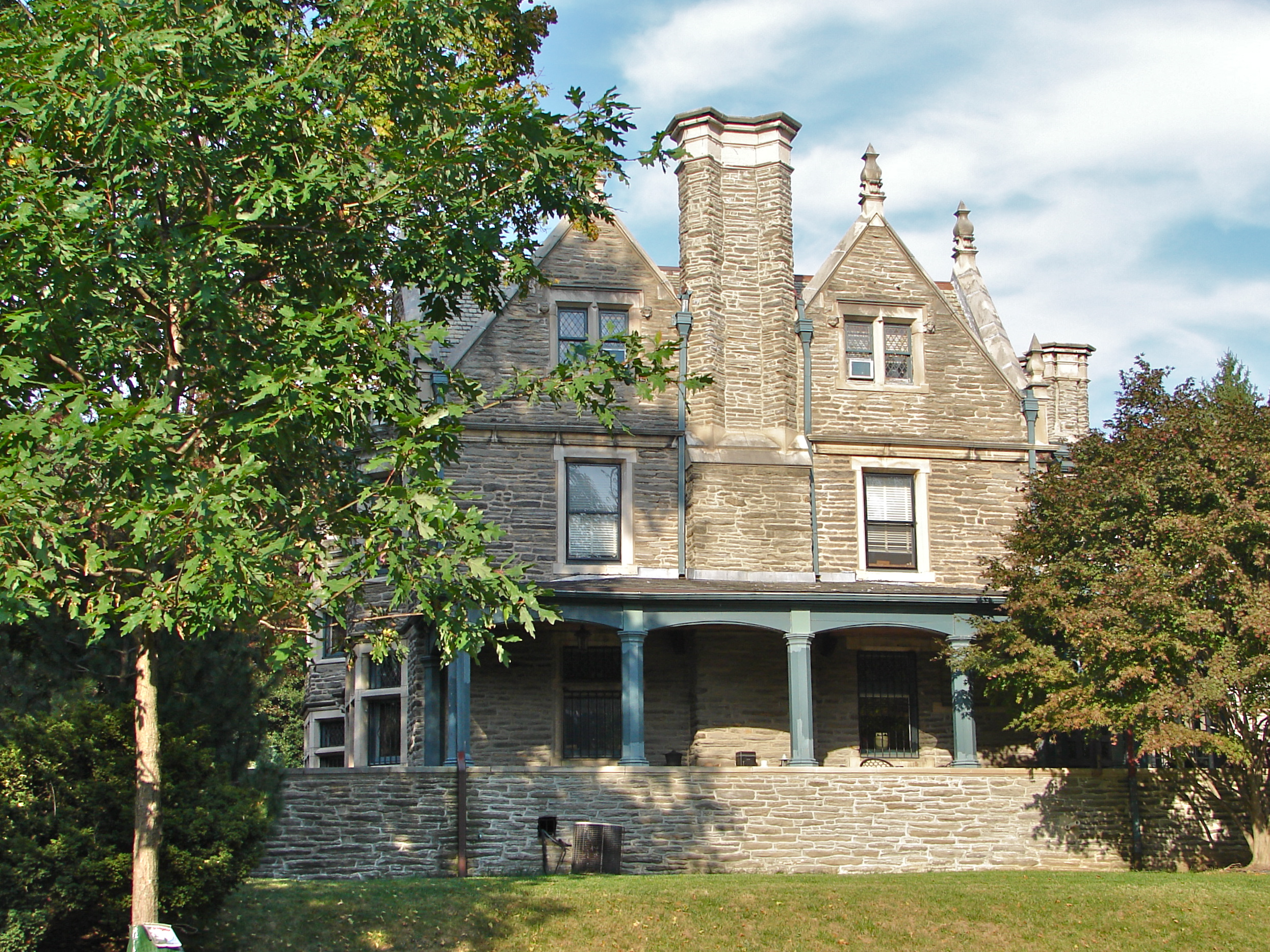 Robert M. Hogue House in NW Philadelphia, on the NRHP since January 16, 1986 . At 100 Pelham Road in the Mount Airy neighborhood of Philly.